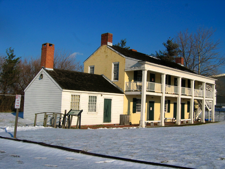 Fort Mifflin Hospital Taken in Philadelphia, Pennsylvania, in December 2003.